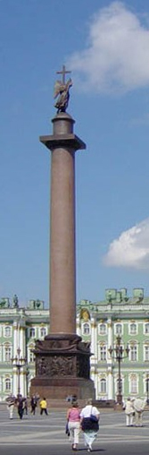 Saint Petersburg (Russia), Palace Square, Alexander Column.